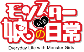 Monster Musume logo